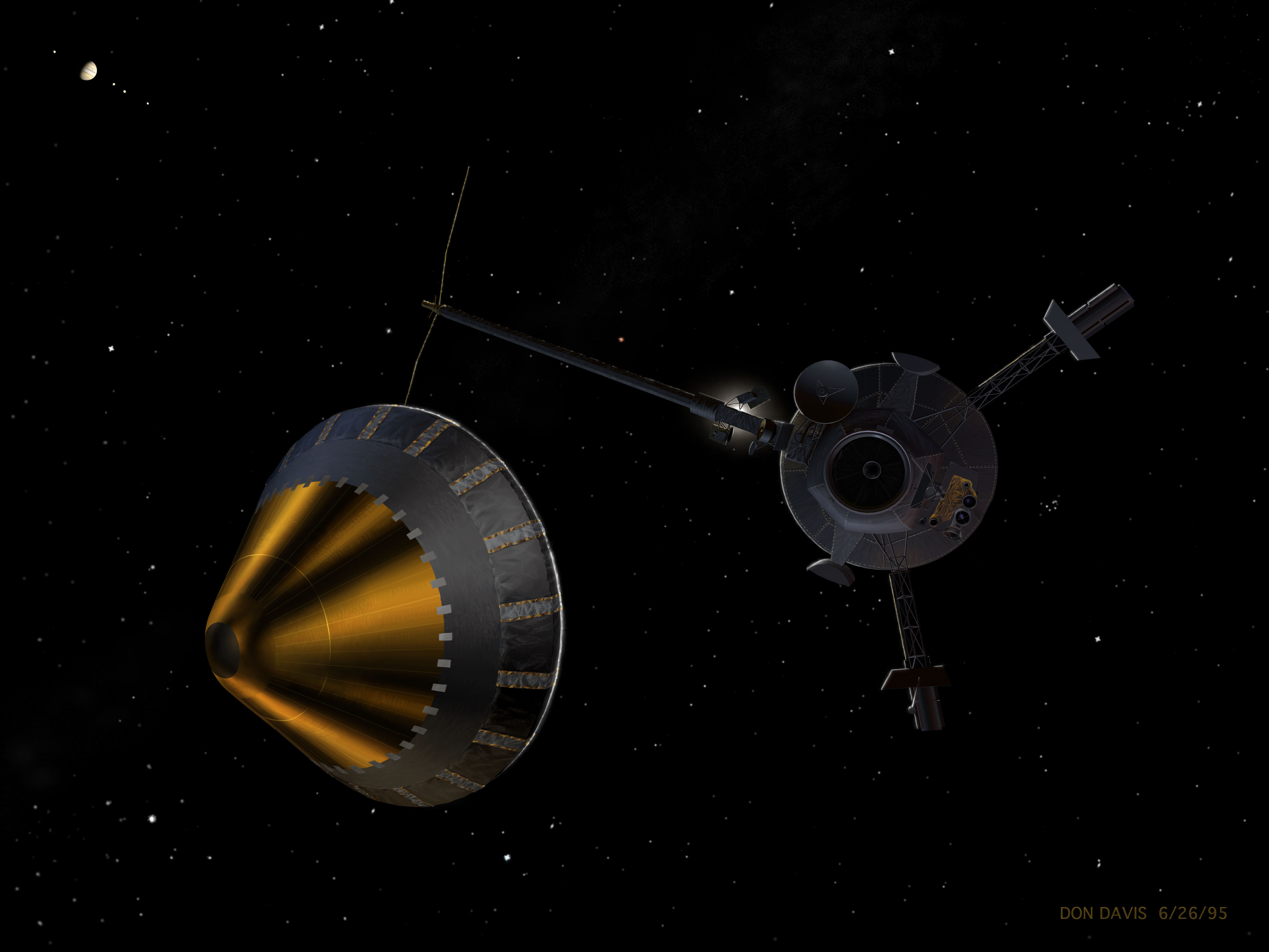 Artist's impression of the Galileo spacecraft (1989–2003). Artist's description: "The Galileo Probe leaves the Orbiter some 180 days before the encounter. Digital painting for NASA Ames."